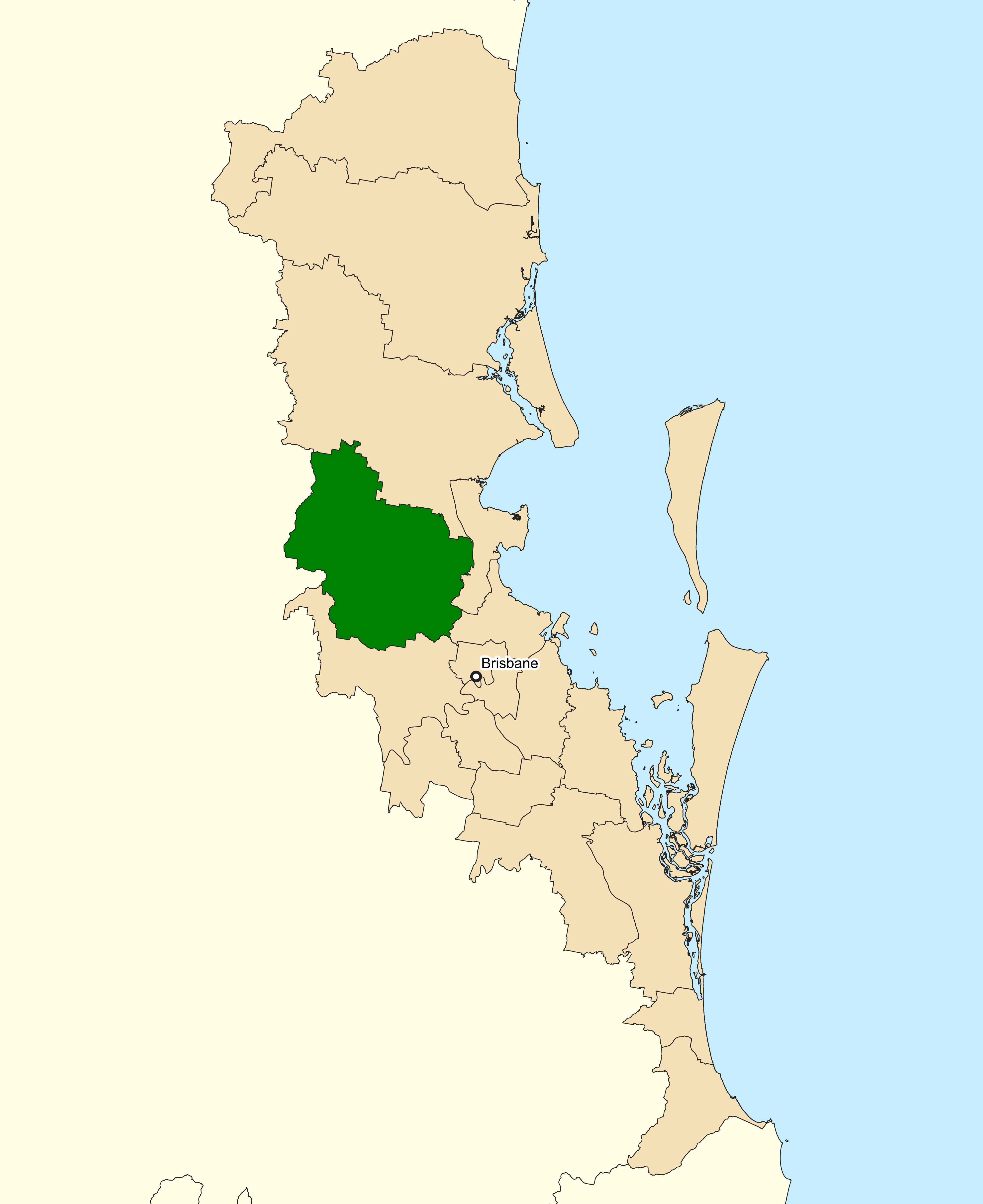 Location of the Australian federal electoral division of Dickson (dark green) in Greater Brisbane, Queensland as of the 2019 Australian federal election. Incorporates or developed using Administrative Boundaries ©PSMA Australia Limited licensed by the Commonwealth of Australia under Creative Commons Attribution 4.0 International licence (CC BY 4.0).